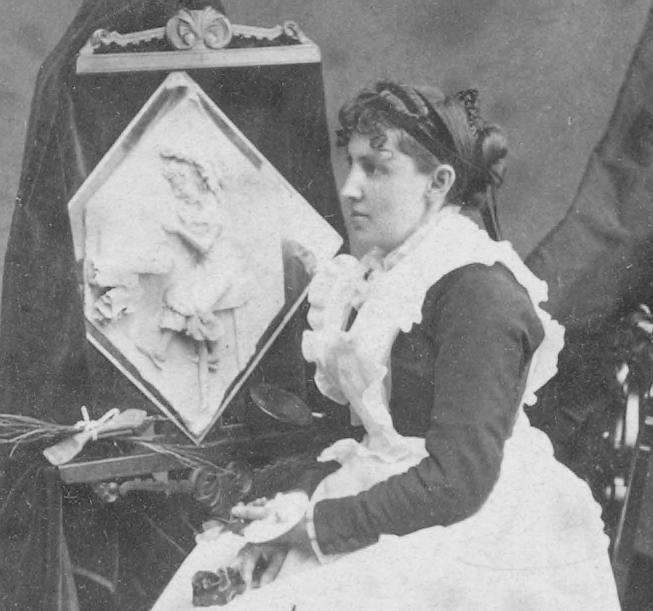 Caroline S. Brooks and her sculpture in butter during a public exhibition at Amory Hall, Boston, USA, in 1877.